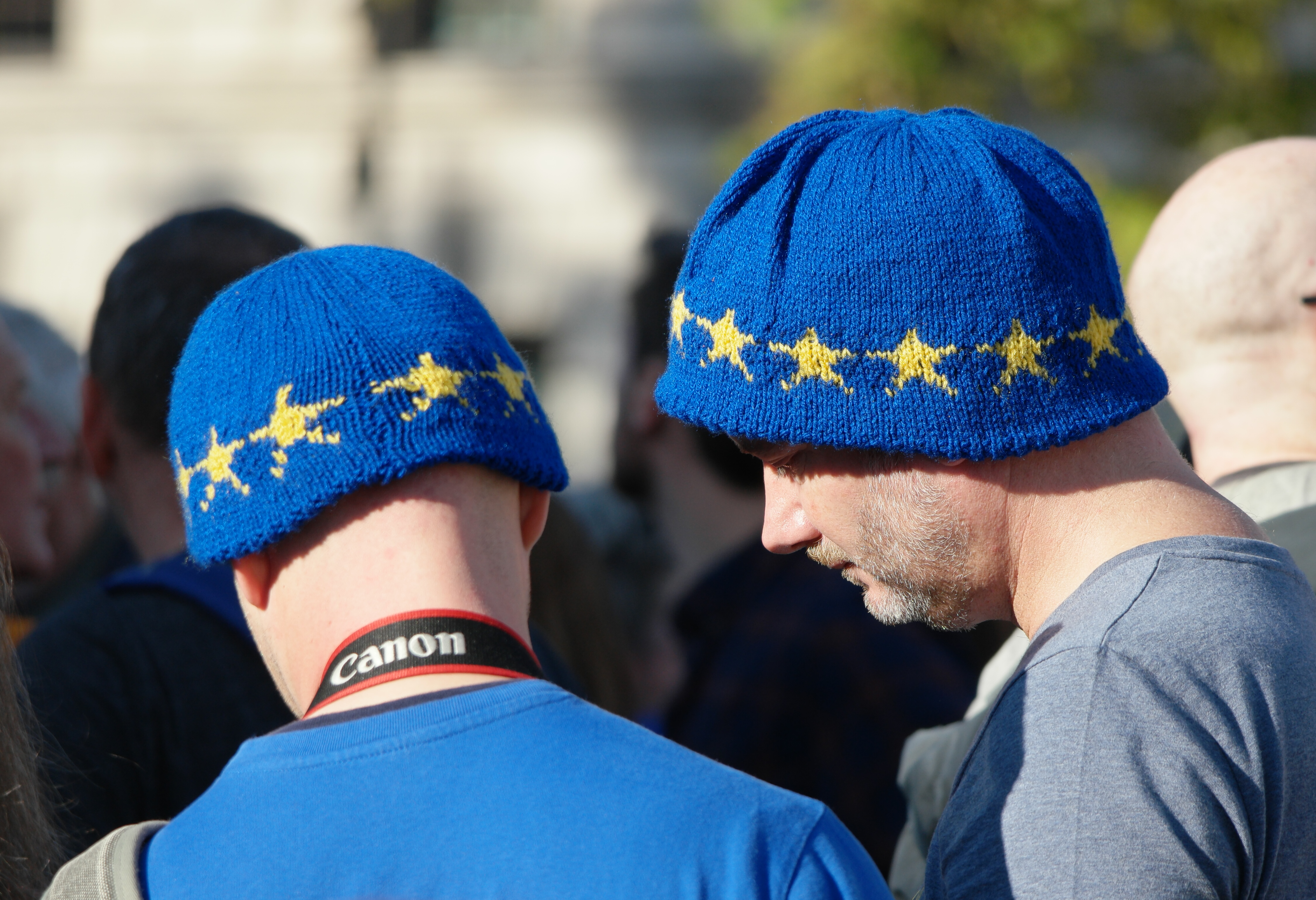 People's Vote, London march, Parliament Square